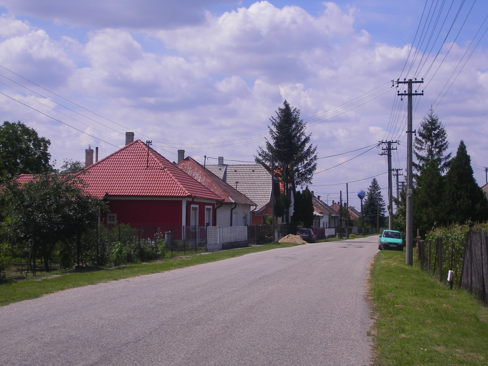 Kravany nad Dunajom/Karva - street view